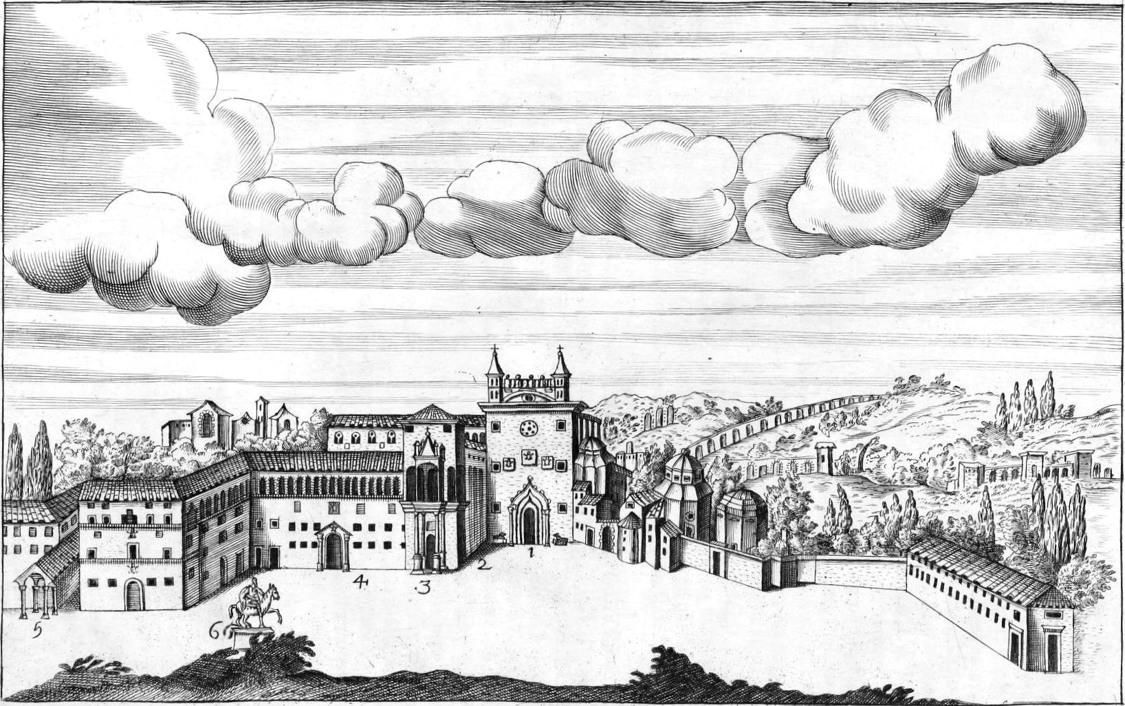 Drawing of the Lateran Palace and basilica during medieval times. Since the old Lateran palace was destroyed and reconstructed after 1586, Ciampini could have based his etching on earlier drawings. 1) Lateran Basilica 2) Council Hall 3) Balcony of Boniface VIII 4) Lateran Palace 5) Holy Stairs (scala sancta) 6) Equestrian statue of Marcus Aurelius